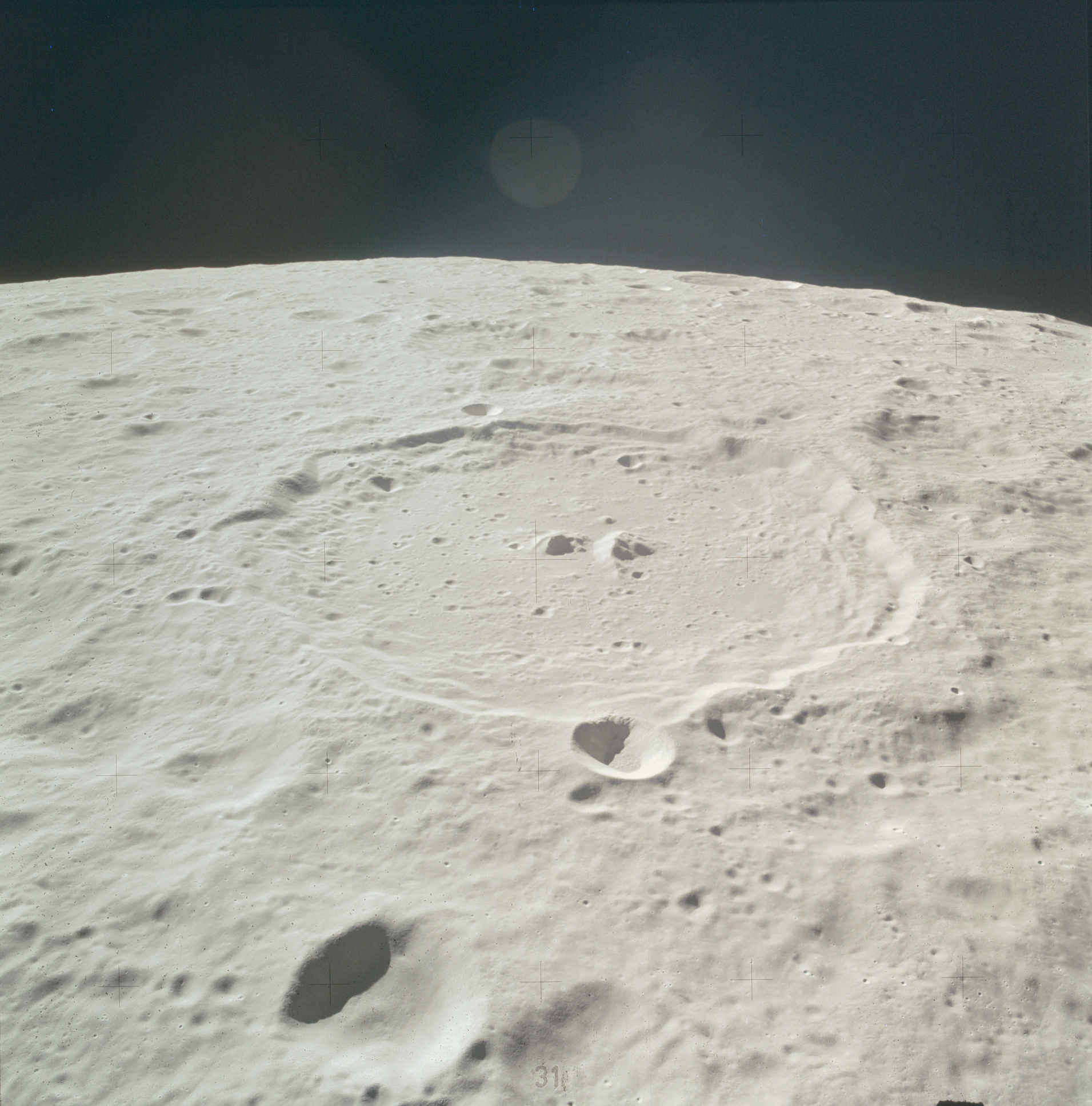 Sklodowska lunar crater - Apollo-15 image AS15-88-11987. Looking northwest with shadowed 25-km Koval'skiy U in the foreground, and 16-km Sklodowska J on Sklodowska's near rim.